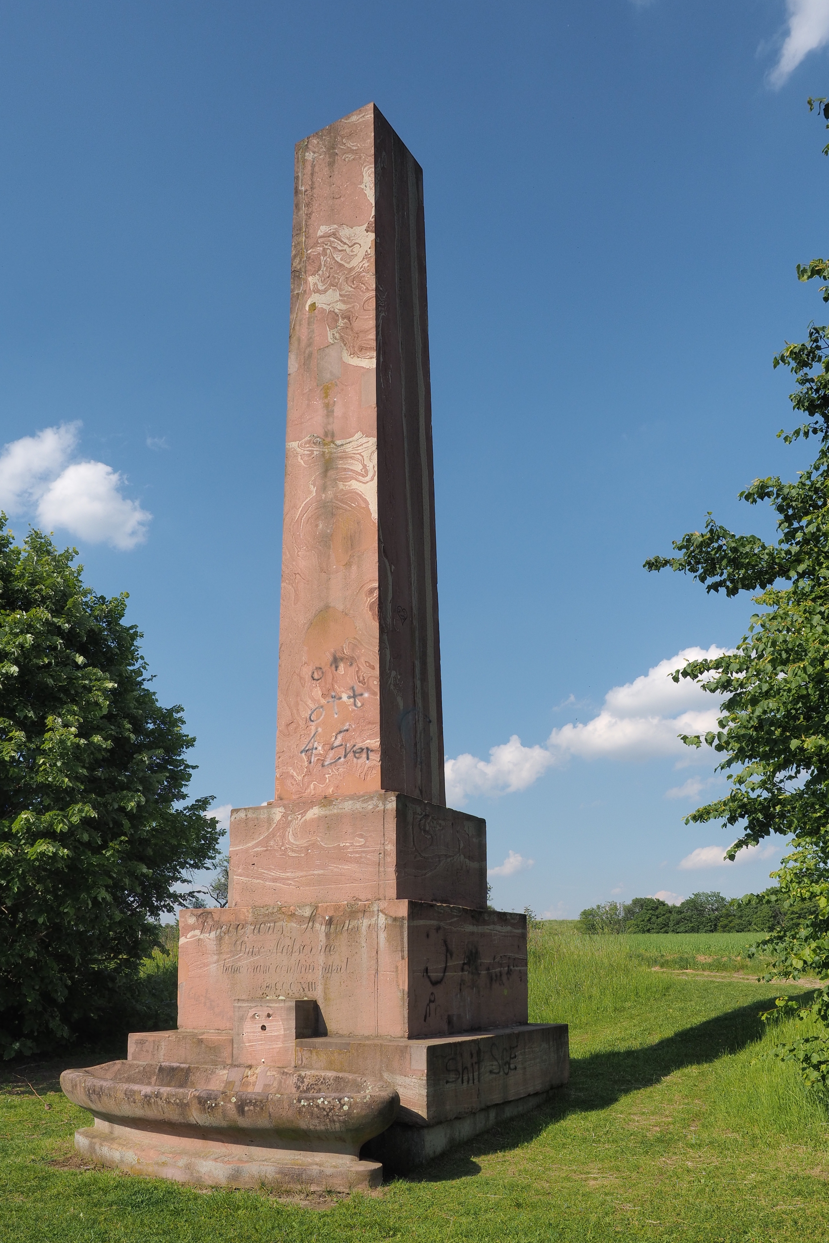 "Wandersmann" memorial from the south-west